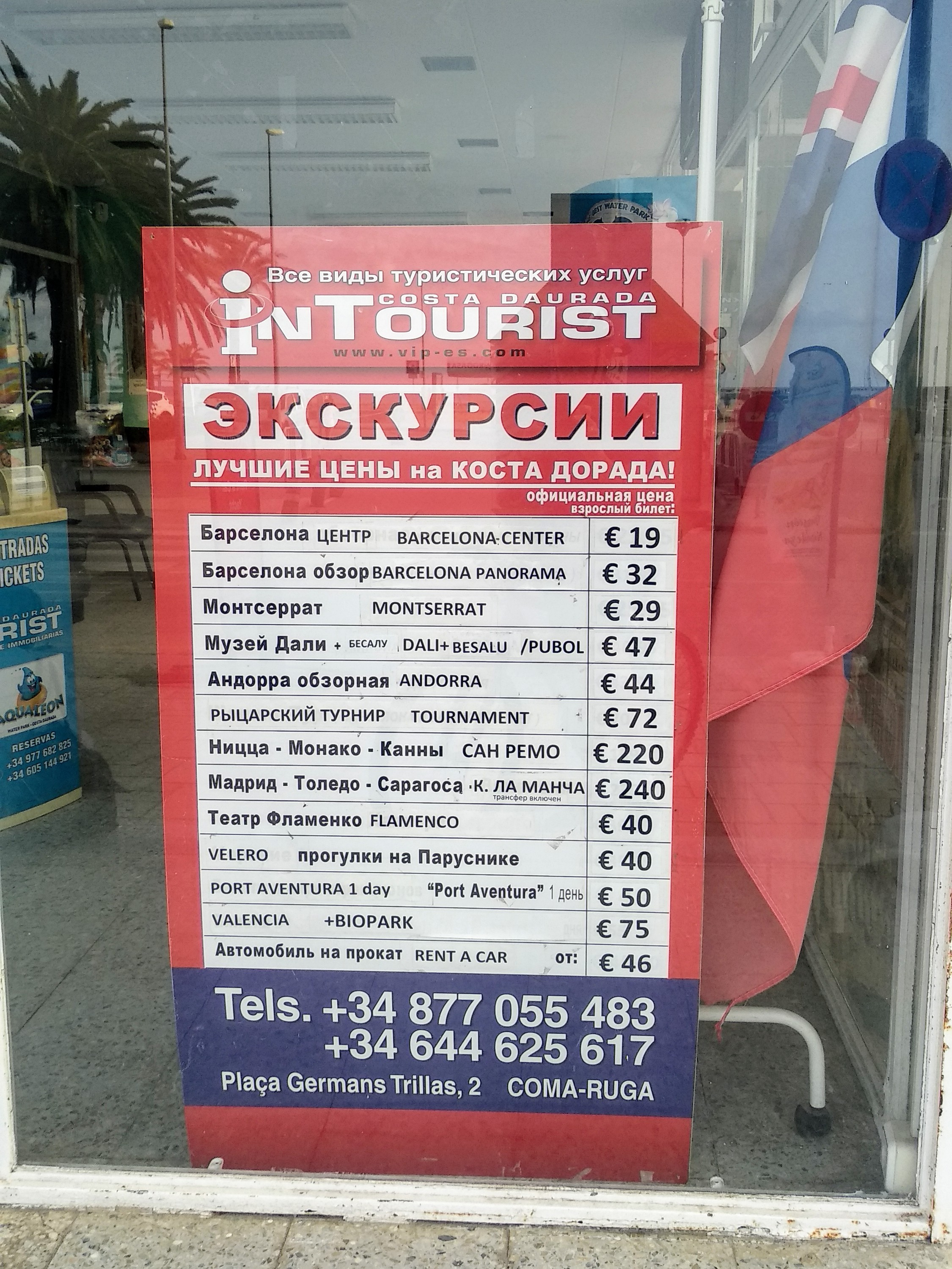 A Russian ad in Comarruga (summer 2019)